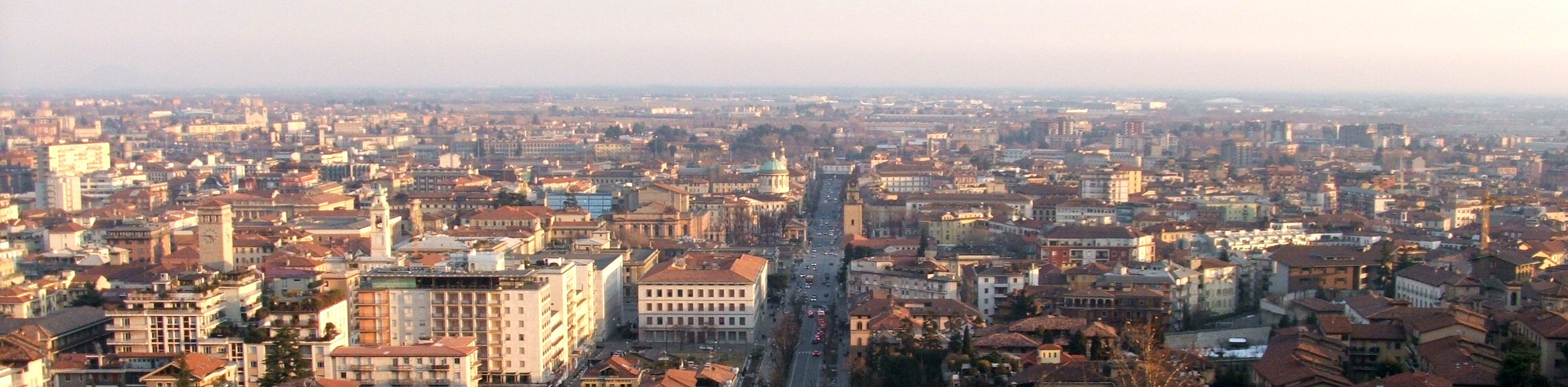 Bergamo, Lombardy, Italy - view of down city from venetian barriers